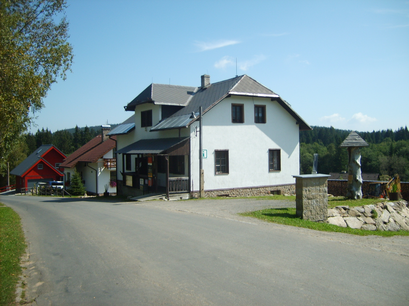 Municipal authority and infocentre in Prášily.